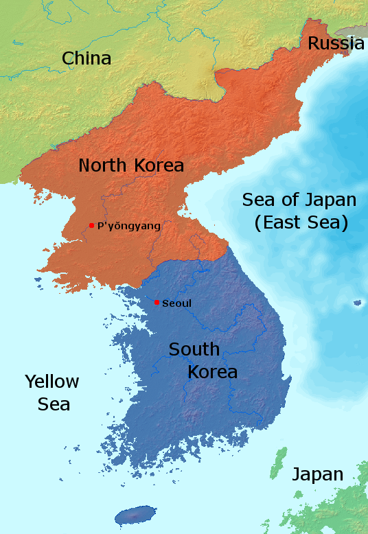 Map of the divided Korea with English labels